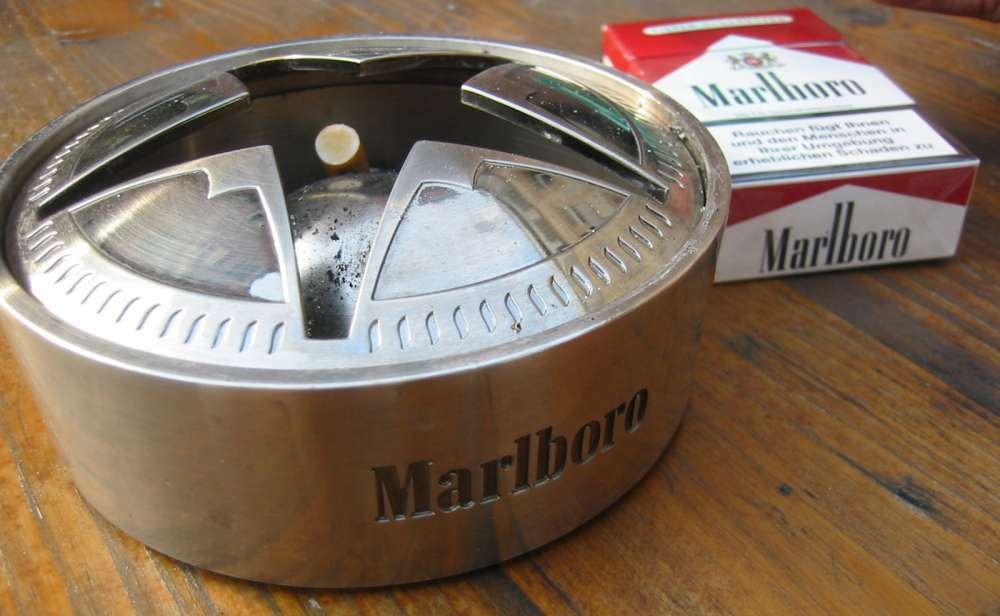 Marlboro cigarette packet and ashtray.